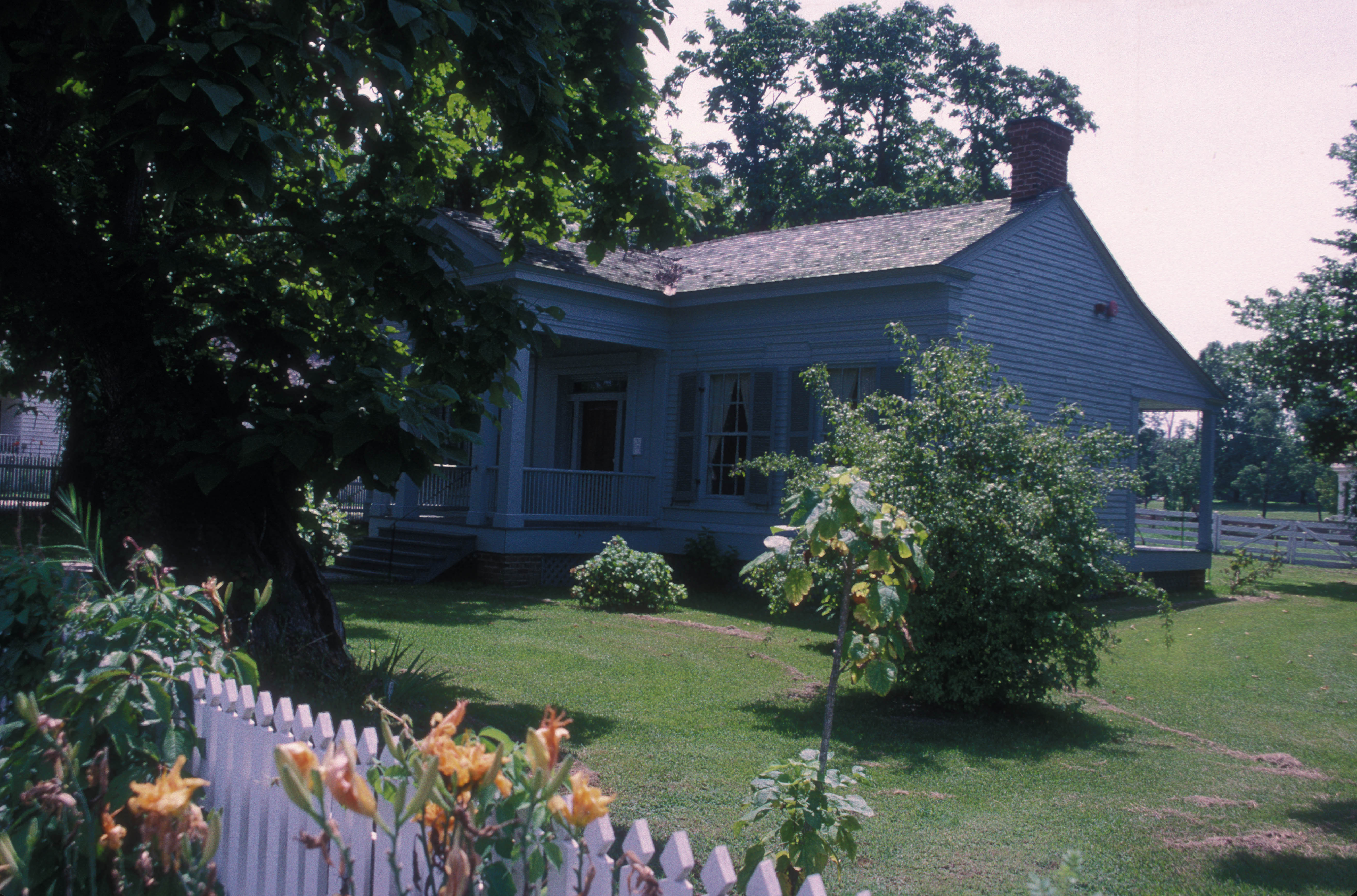 In Historic Washington Park, Arkansas. 1856; A GREEK REVIVAL HOME CONSTRUCTED BY AUGUSTUS M. CROUCH, A JEWELER AND WATCHMAKER WHO SERVED IN THE MEXICAN WAR AT THE BATTLE OF BUENA VISTA IN 1847.